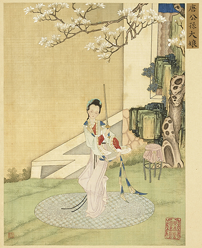 This painting depicts Lady Gongsun (公孫大娘).